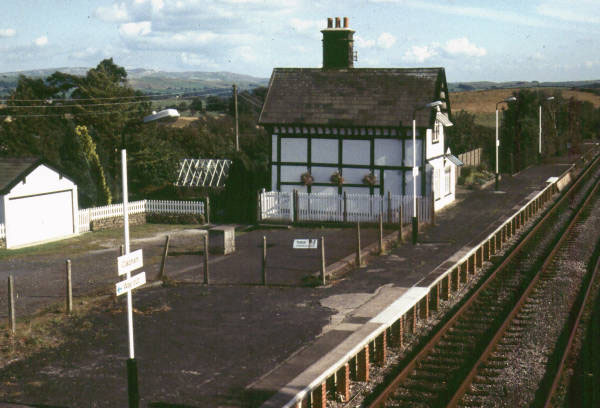 Just a note - this picture is taken pre- refurbishment (early 2000s ?). The station now has repaired fences, tarmac, signs and the platform has been shortened.